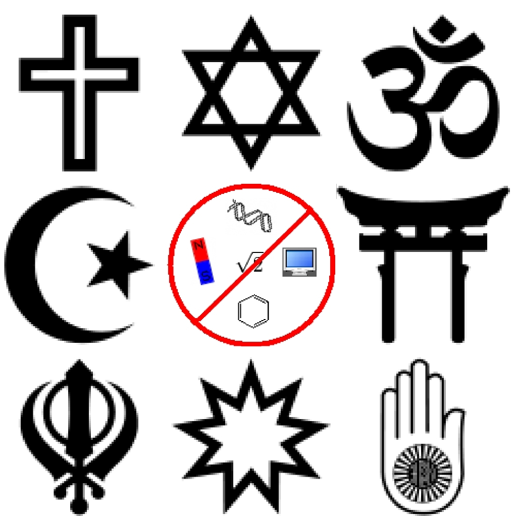 Original file 1 (Religious syms.svg): Religious symbols from the top nine organised faiths of the world according to Major world religions.From left to right: *1st Row: Christian Cross, Jewish Star of David, Hindu Aumkar *2nd Row: Islamic Star and crescent, Shinto Torii *3rd Row: Sikh Khanda, Bahá'í star, Jain Ahimsa Symbol Original file 2 (AntiMatPhyCheBioCom.png): Anti-Science (including math, physics, chemistry, biology, computer science, etc.) This file (Science is not a Religion.jpg): science is NOT a religion! The central symbol in the first image was replaced by the second image.